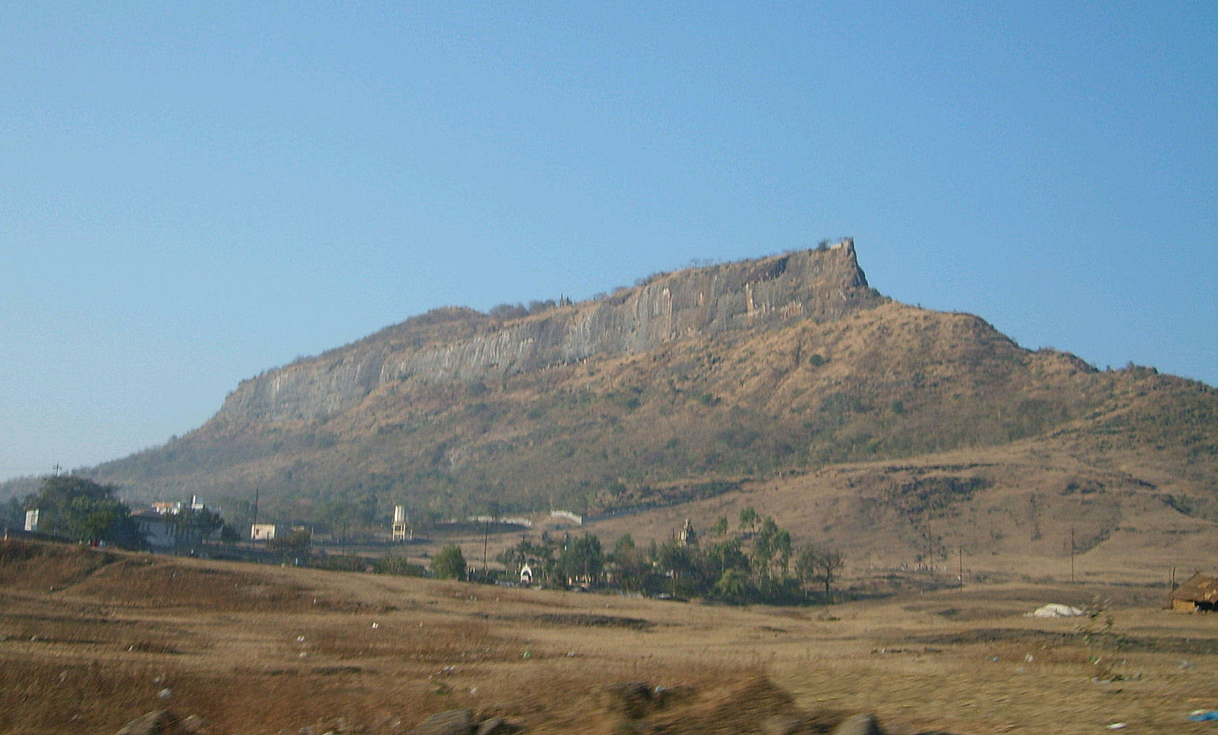 Shivneri, a 17th-century fort near Junnar, India